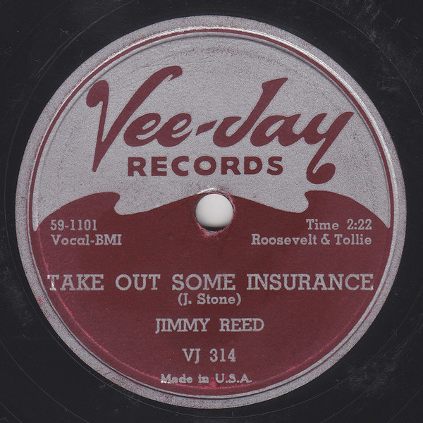 Jimmy Reed's '59 single label